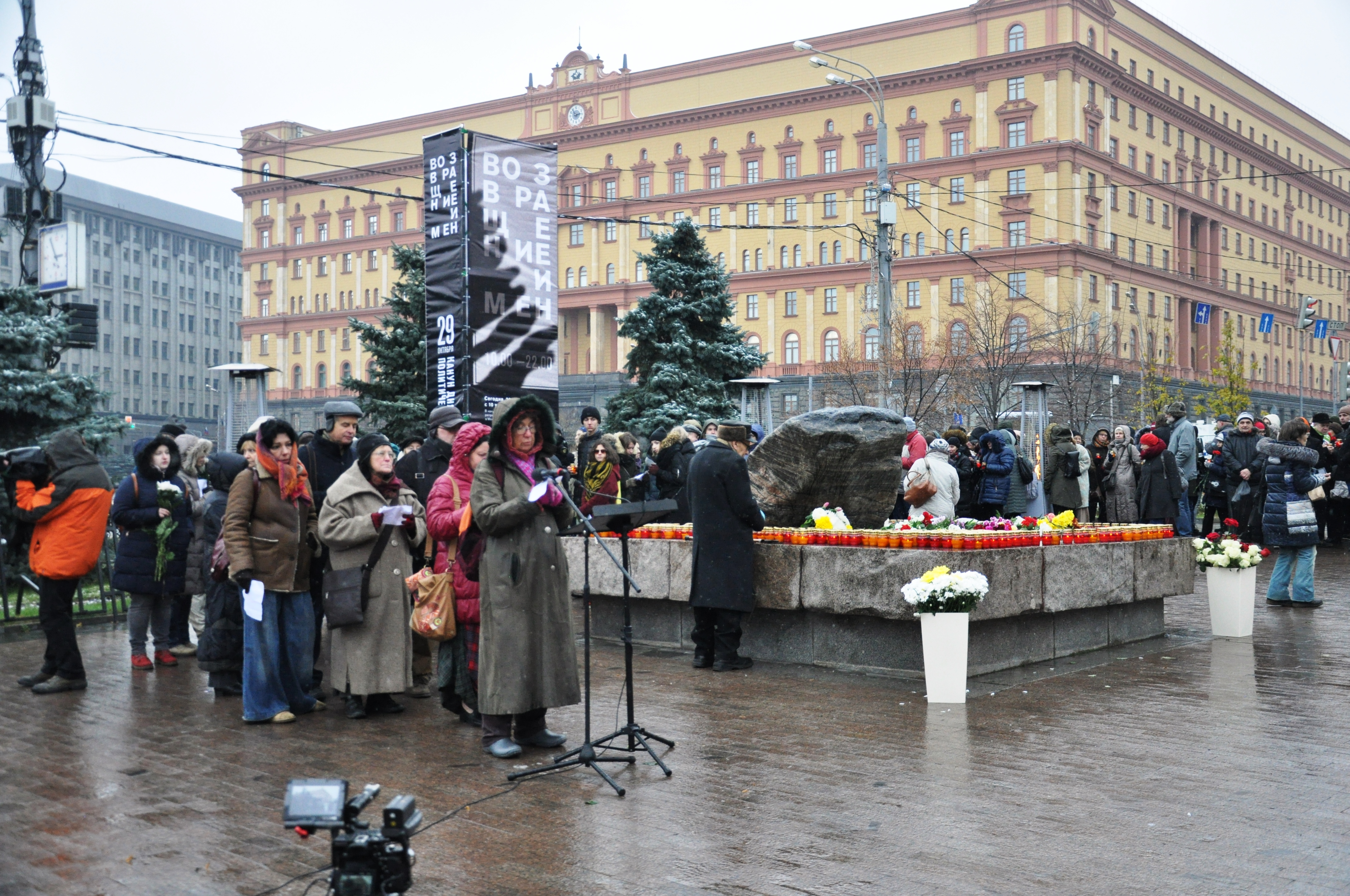 "Return of the Names" 29.10.2016, Moscow